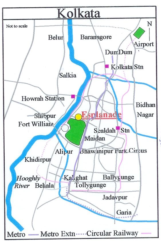 Own map